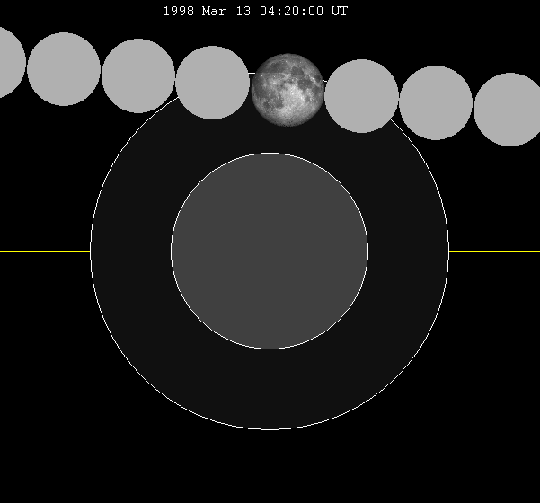 March 1998 lunar eclipse chart of moon's penumbral lunar eclipse path through the earth's shadow. thumb